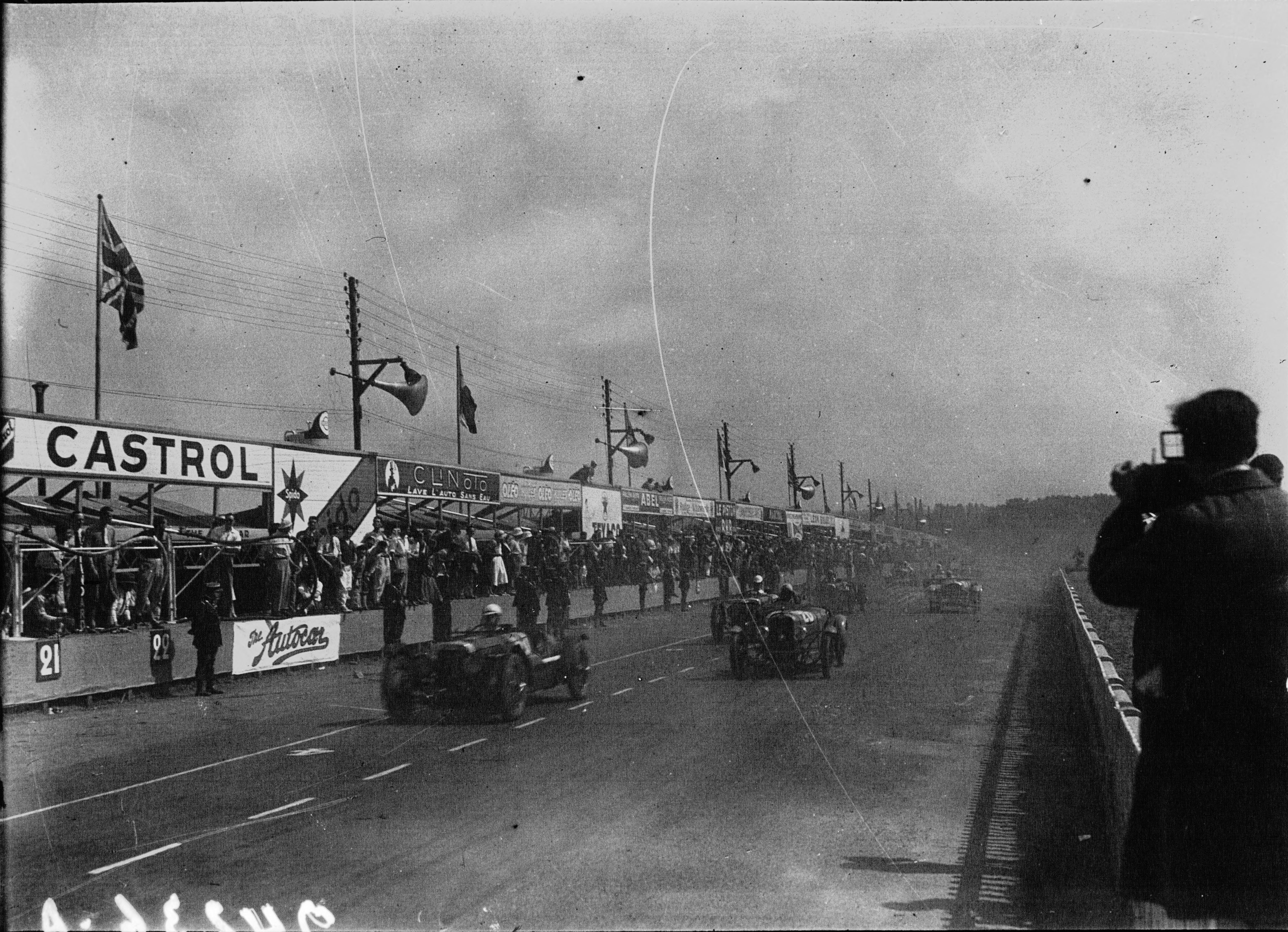 Start of the 1932 24 Hours of Le Mans.